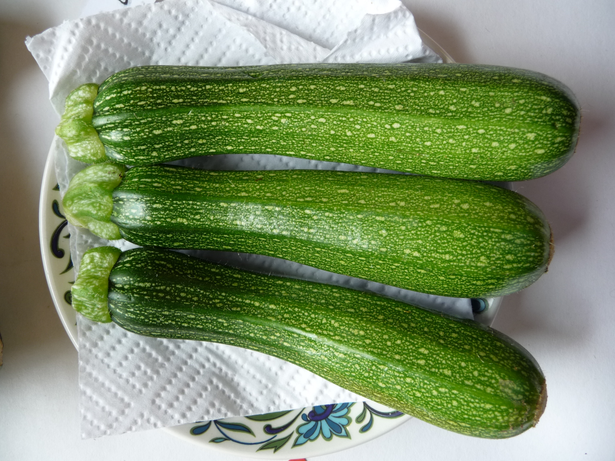 3 Zuchini